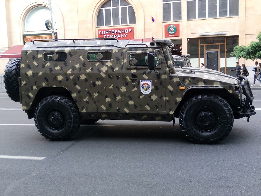 Gaz Tigr in Yerevan